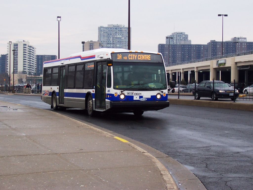 Brampton Transit #0601 at Bramalea City Center.